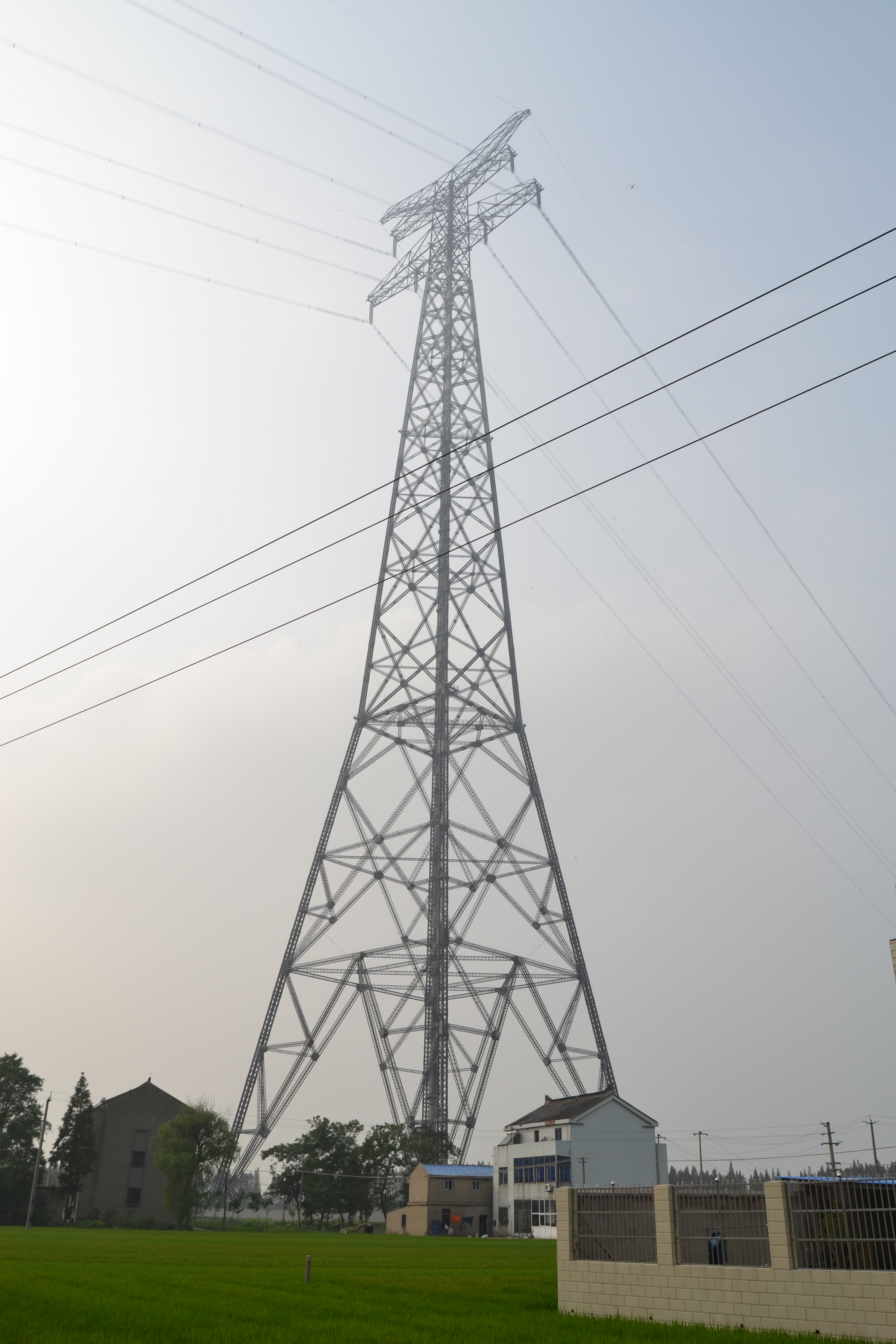 Large electricity pylon in Jiangyin, part of a Yangtze River 500 kV overhead power line crossing